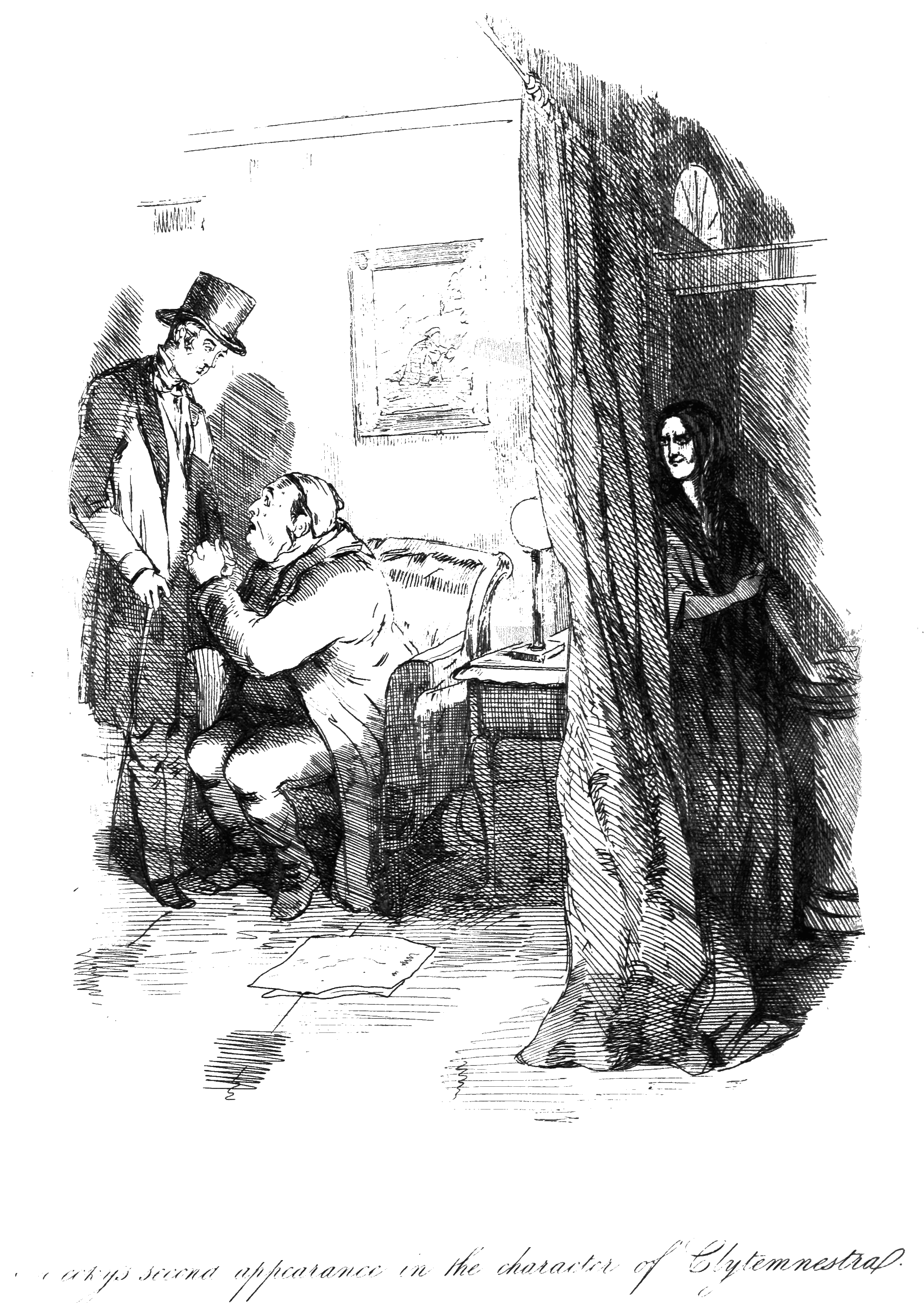 Becky's second appearance in the character of Clytemnestra The number indicates the Djvu page number of the Wikisource transclusion.